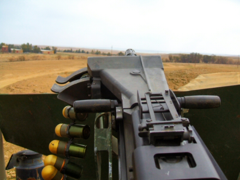 It is a crew-served weapon (as in a machine gun) that fires grenade projectiles (a 40mm). I was on the turret during this mission with my baby Mark 19. You have no idea how much I love this weapon. I used the Orton Technique on this.